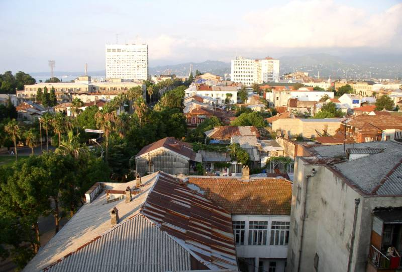 Batumi view northward.